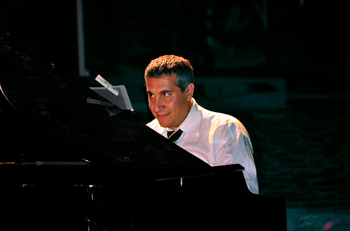 At a concert in Athens July 16, 2010